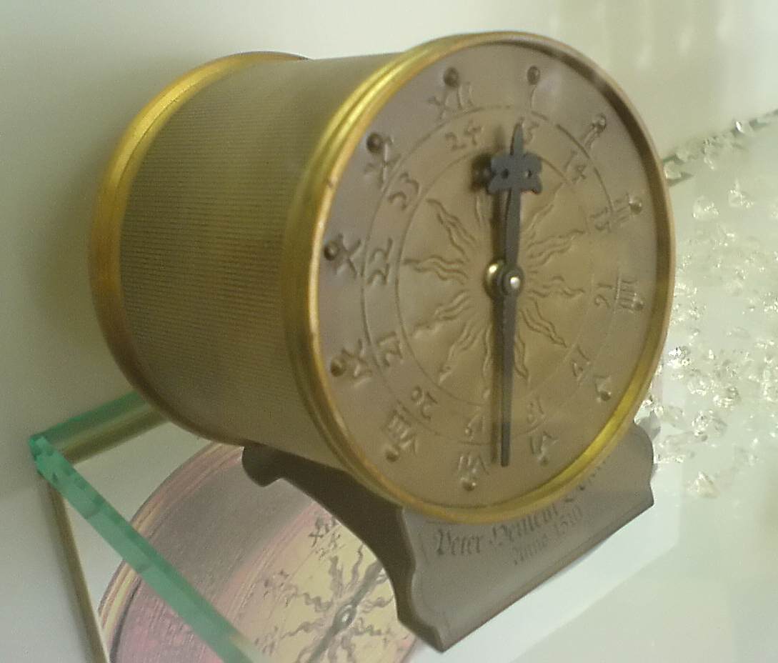 Replica of early "clock-watch" (Taschenuhr) made by Peter Henlein of Nurnberg in the 16th century, from the watch collection of Peter Gebhardt, exhibited at Crafts Museum, Nurnberg